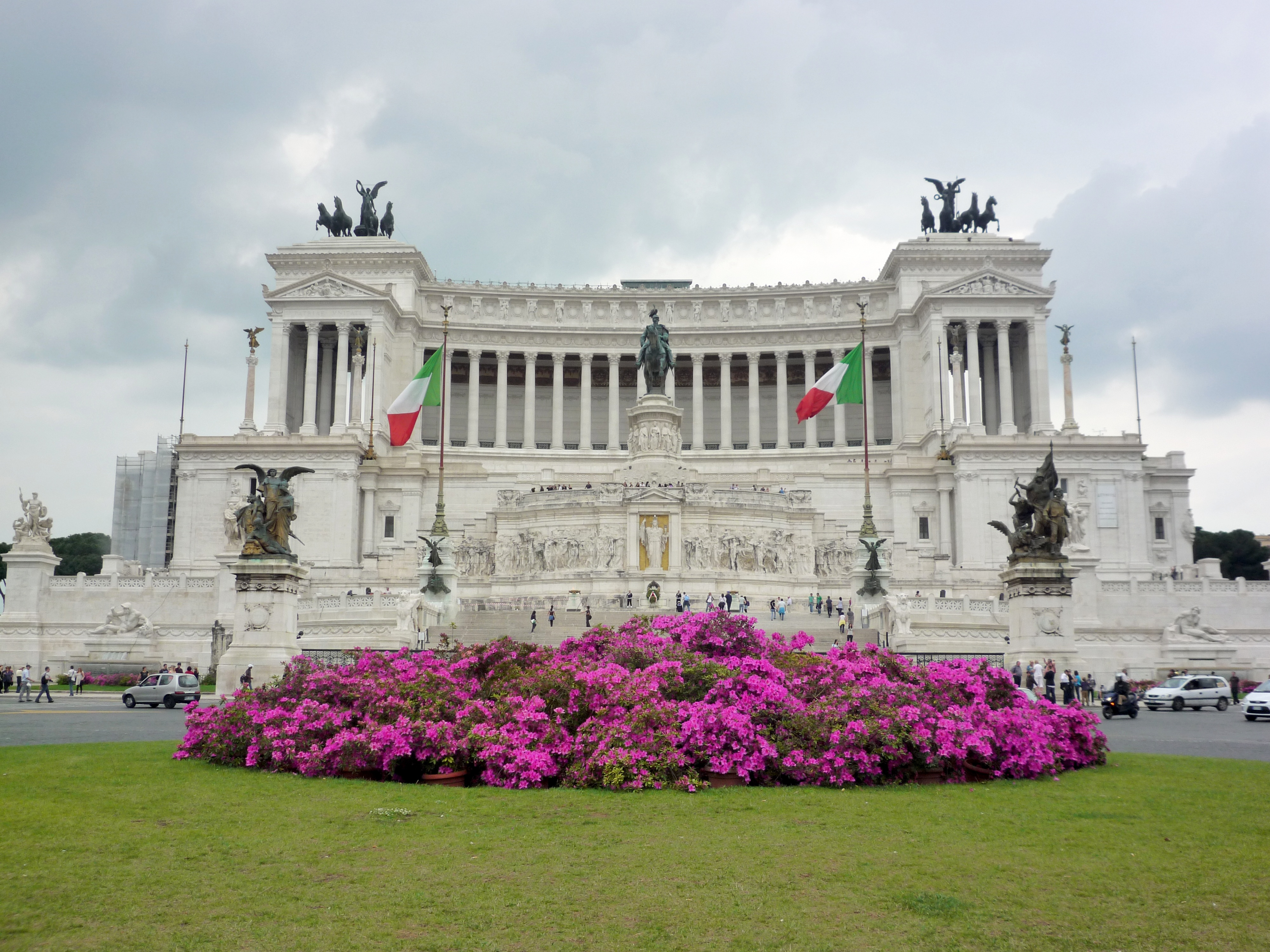 Rome - Piazza Venezia and Monument of Vittorio Emanuele II